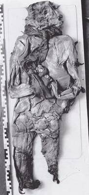 A mummified human corpse found in 1922.